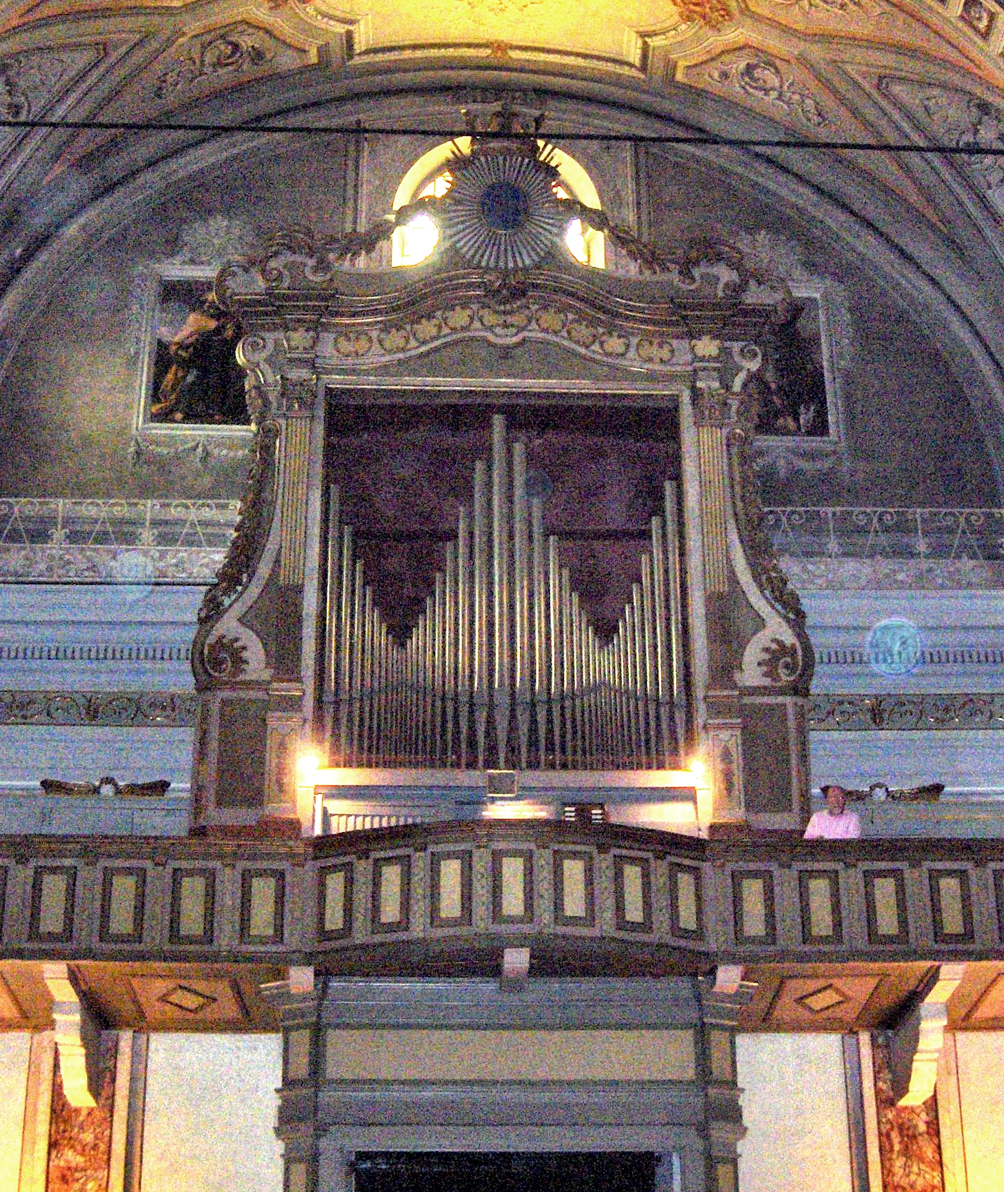 Organ of the church of St. James and St. Philip (Chiesa parrocchiale dei Santi Giacomo e Filippo); Taggia, Liguria, Italy